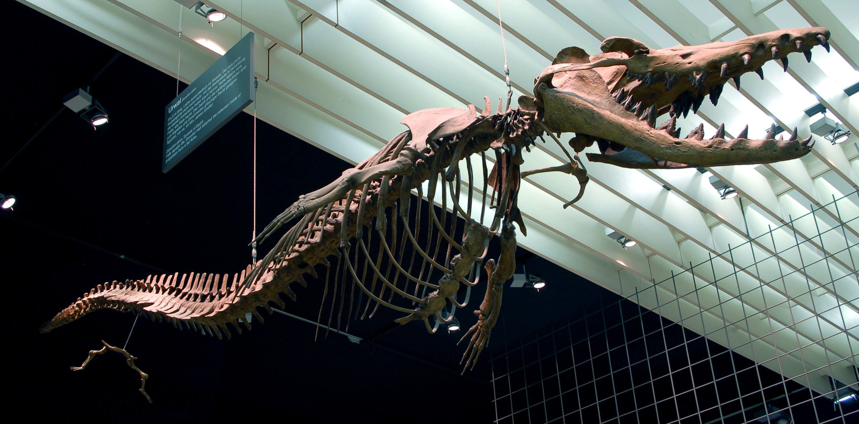 Skeleton of Dorudon atrox in the Senckenberg Museum in Frankfurt am Main